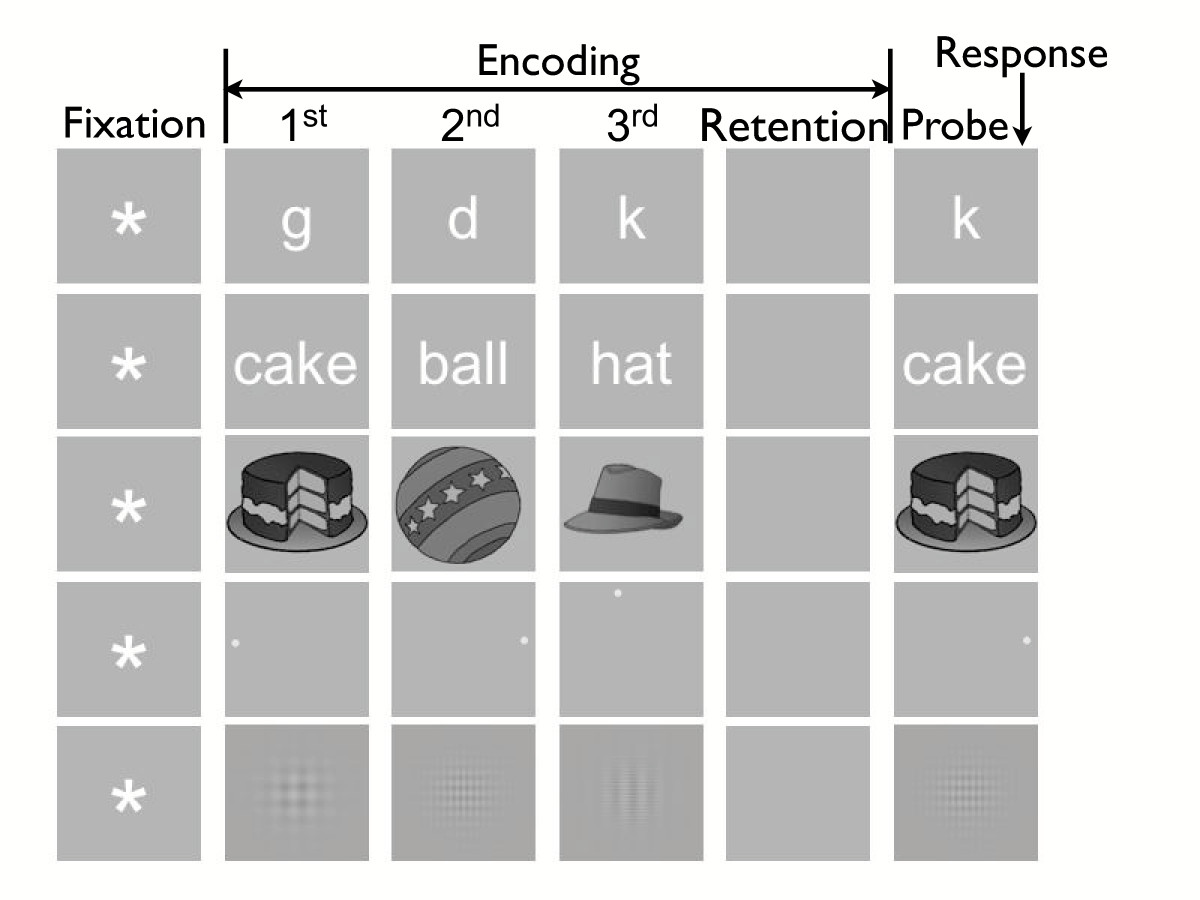 Figure legend in source article (CC-by-2.0): "Sternberg Paradigm. Schematic illustrating one trial of each stimulus pool in the Sternberg task: letter, word, object, spatial, grating. Also shown are stimulus class definitions. The time interval from the moment the subject depressed the advance key until the onset of the fixation stimulus was 400 ms; we therefore used this 400-ms interval as our baseline stimulus class (not labeled). The fixation stimulus class (labeled Fixation) covers the time interval starting at the presentation of an asterisk and ending just before the presentation of the first study item. The encoding stimulus class (labeled Encoding) is the time interval covering the presentation of the 3 study items (labeled 1st, 2nd, 3rd) including the 500-ms interval following the disappearance of the third study item (labeled Retention). The time interval covering the start of the presentation of the first item and ending with the presentation of the third item is referred to as the study interval. The encoding stimulus class therefore contains two intervals: the study interval followed by the retention interval. The probe stimulus class (labeled Probe) is the time interval starting with the onset of the probe stimulus and ending with the subject's response. The response stimulus class started with the onset of subject response and ended 1 sec later, well before the start of the next trial (not labeled)."